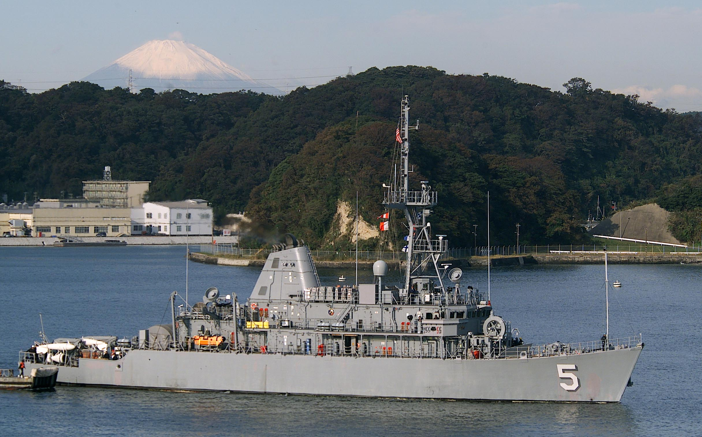 The USS Guardian (MCM-5), a Avenger-class mine countermeasures ship, in November 2002. The USS Guardian is 224 feet in length, has a beam of 39 feet, and displaces 1,312 tons fully loaded. The ship has a normal complement of 81 officers and enlisted personnel. The hull of the ship is constructed of oak, Douglas Fir and Alaskan Cedar, with a thin coating of fiberglass to take advantage of wood's low magnetic signature during mine countermeasures operations.